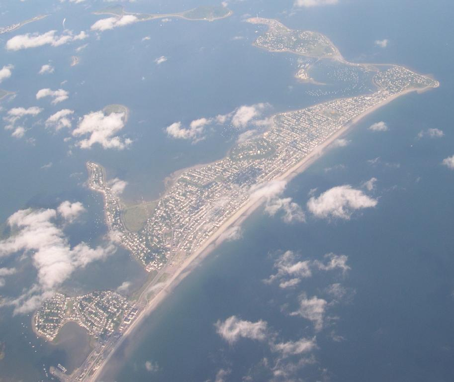 Aerial view of Hull